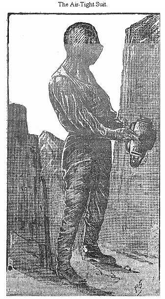 Image from Edison's Conquest of Mars, published in 1898.